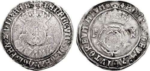 England Tudor Henry VIII of England . 1509-1547. AR Testoon (7.60 g, 10h). Third coinage. Tower mint; mm: lis. Struck circa 1544-1547. Crowned facing bust; VIII in legend, annulet-in-pellet at end of legend Crowned rose; crowned h R flanking, annulet-in-pellet at end of legend. Jacob O7/R11 and p. 284, 7 (this coin); Whitton A(2); North 1841; SCBC 2364. From the Andrew Wayne Collection. Ex Spink Numismatic Circular vol. CXII/2 (April 2004), no. HS1626; K.A. Jacob Collection. In his study of Henry’s testoons, Jacob noted that the dies used for this coin were altered by the addition of the pellet-in-annulet at the end of the legends. While other dies were made with this added mark, these dies are the only ones known to have been altered from the earlier emission without the mark.